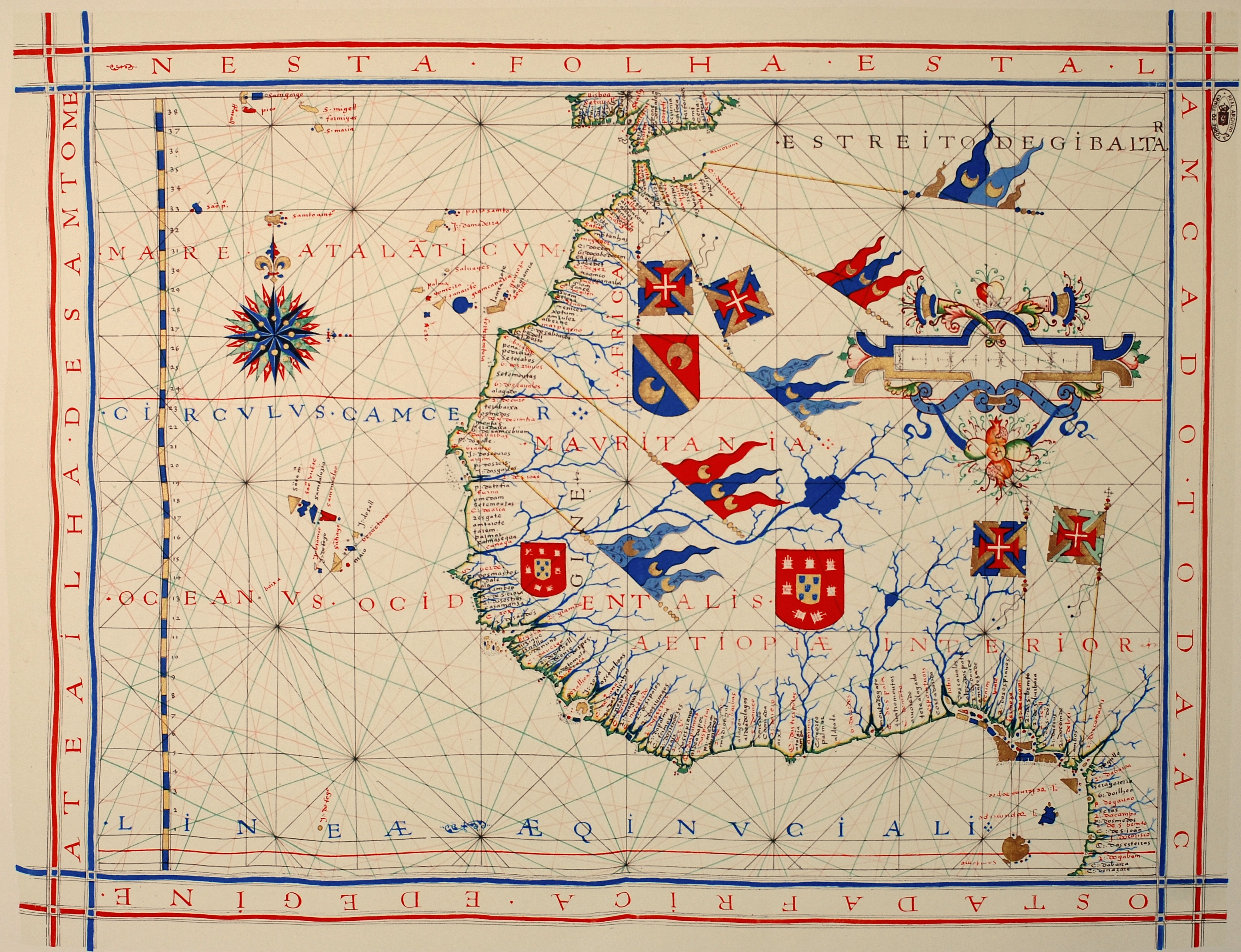 Nautical chart of Portuguese cartographer Fernão Vaz Dourado (c. 1520 - c. 1580), part of a nautical atlas drawn in 1571 and now kept in the Portuguese National Archives of Torre do Tombo, Lisbon.